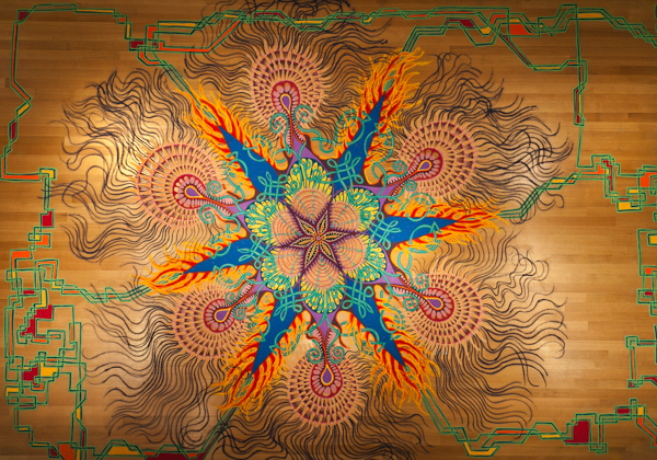 Sand Painting Titled "Asynchronous Syntropy" created at The Museum of Arts and Design NYC May 2012 as part of the exhibit "Swept Away"